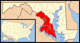 Map of Catholic Archdiocese of Washington in USA.